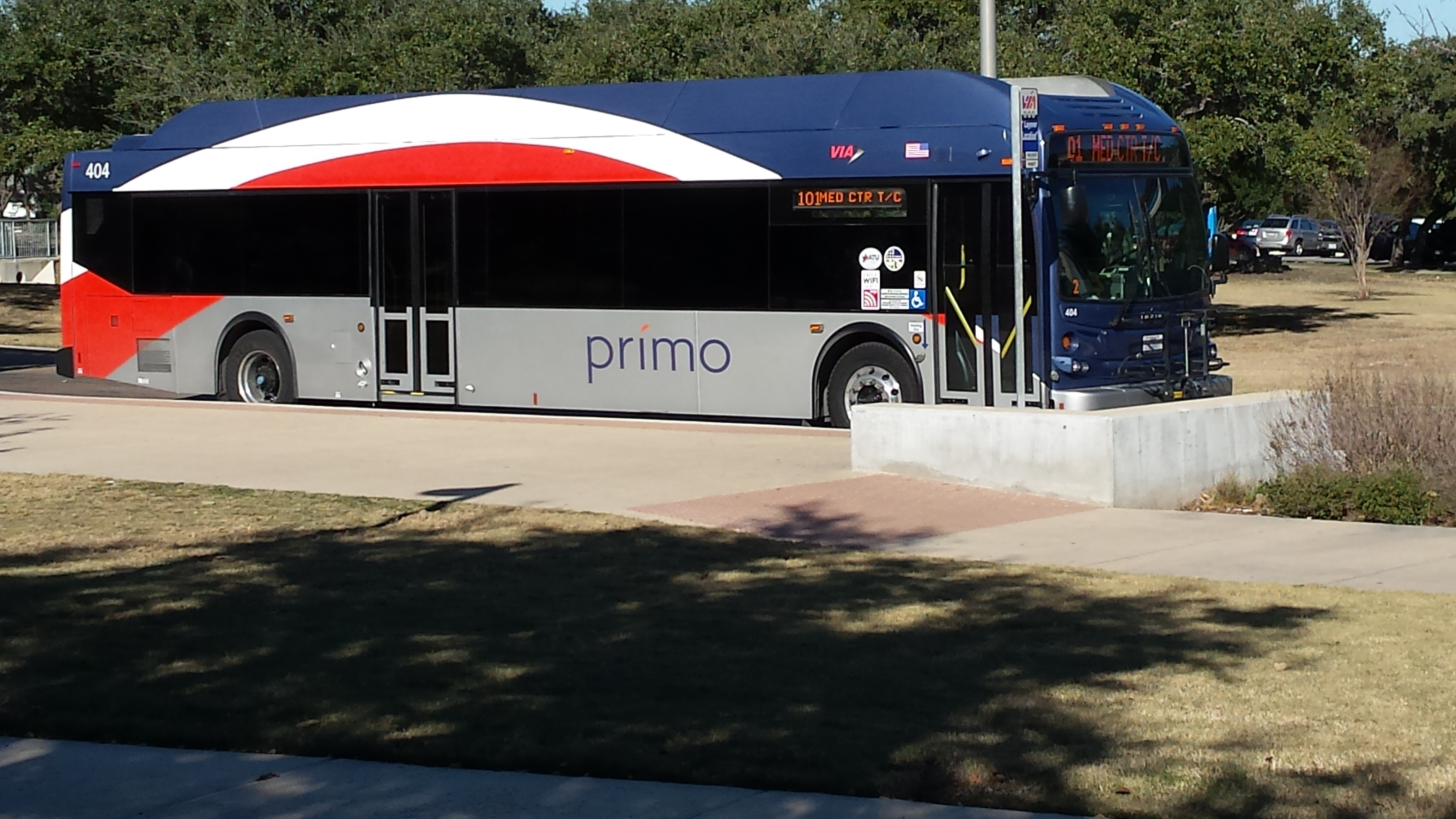 A VIA Metropolitan Transit Primo bus rapid transit bus waiting at the VIA stop on the University of Texas at San Antonio (UTSA) Main Campus.